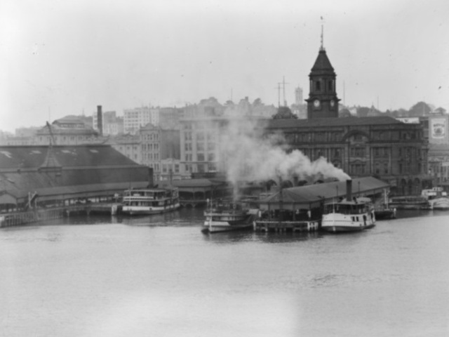 Ferries at the Auckland waterfront, Auckland City, New Zealand, 1912. Compare with this image, showing same area in modern days. Extended information on origin webpage reads: Ferries by the Auckland Ferry Building [ca 1912] / Reference number: 1/1-008072-G 1 b&w original negative(s). Glass negative. / Part of McAllister, James, 1869-1952 :Negatives of Stratford and Taranaki district (PAColl-3054) Photographic Archive / Scope and contents: Ferries on Waitemata Harbour, with the Auckland Ferry Building behind. Photograph taken circa 1912, by James McAllister.